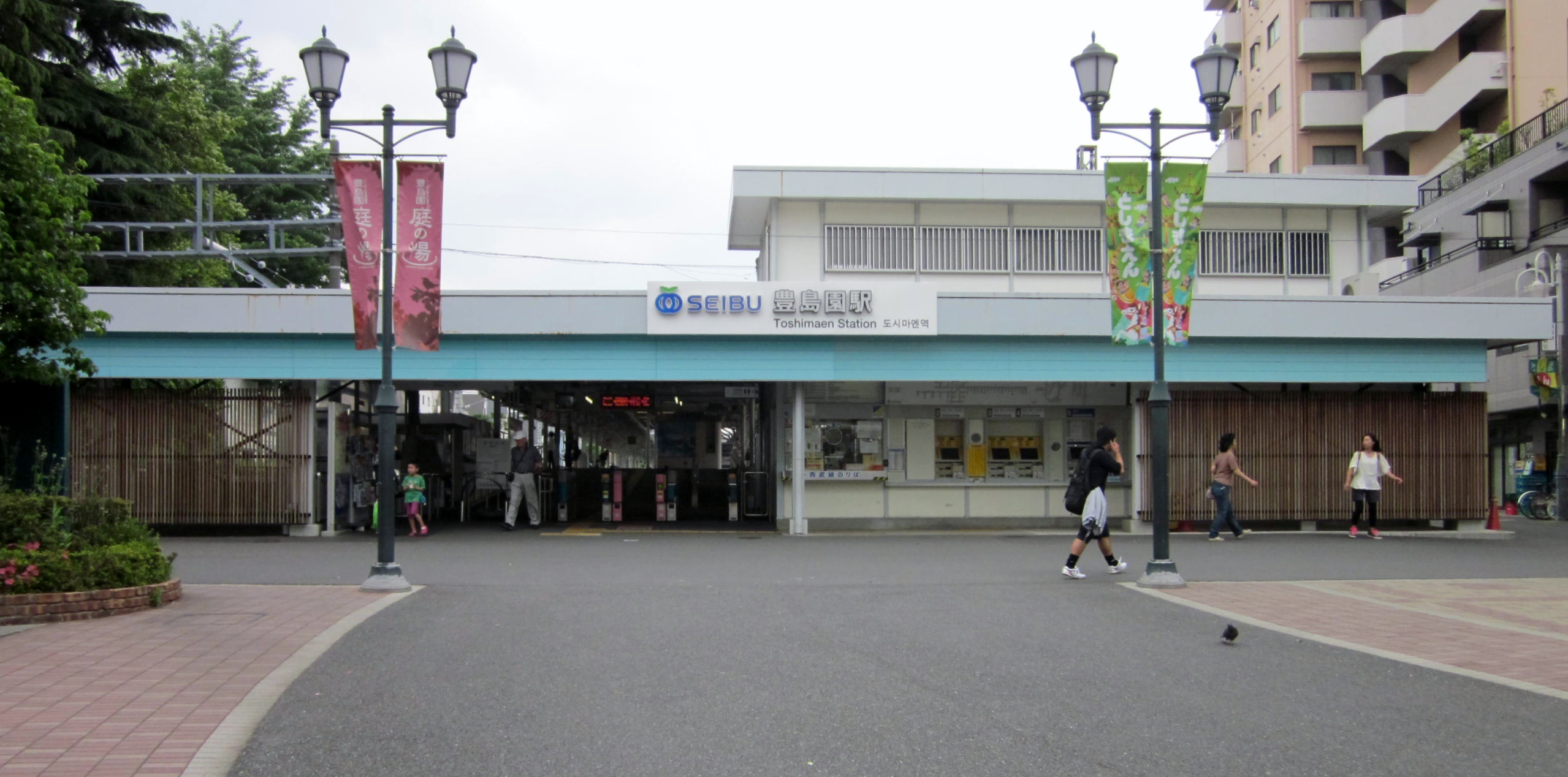 Toshimaen Station on the Seibu Toshimaen Line in Nerima, Tokyo, Japan